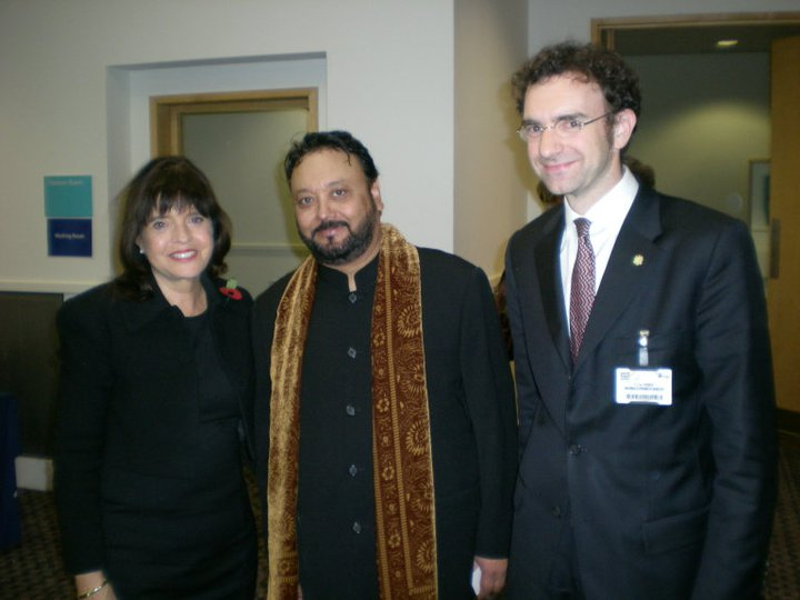 Alston Koch is with British Minister of State Barbara Follett and Adviser to the U.S. President George Allan.